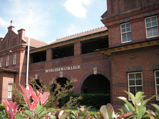 Bethlehem College, Bland St, Ashfield, NSW. Catholic Girls High School.